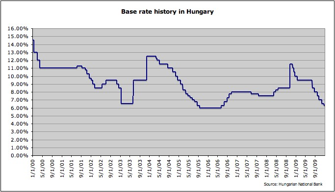 Graph showing the base rate of the Hungarian National Bank